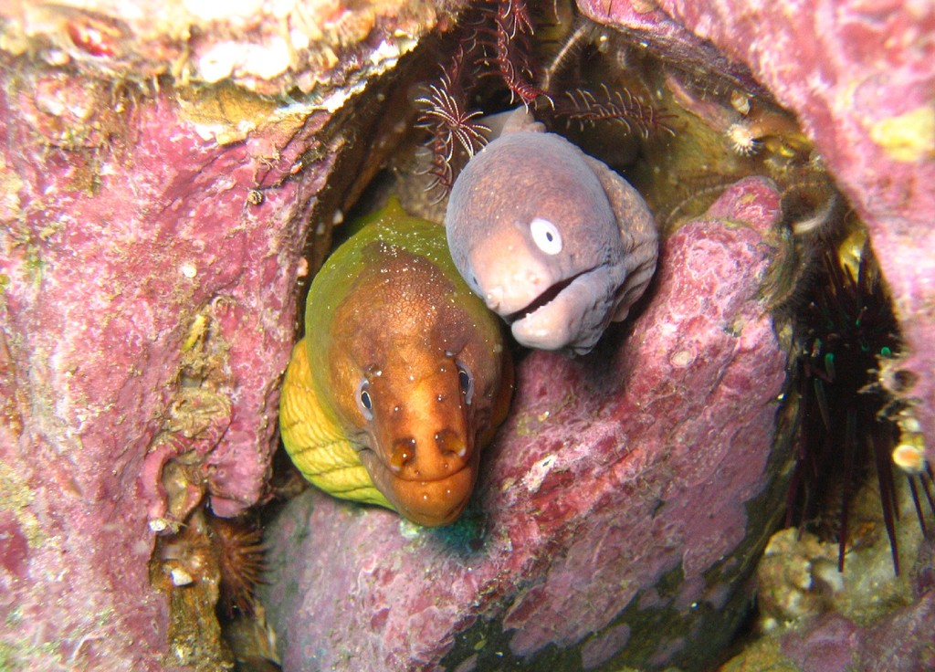 A Green Moray Eel (Gymnothorax prasinus) and Greyface Moray Eel (Gymnothorax thyrsoideus) sharing a lair. Green Island, South West Rocks, NSW